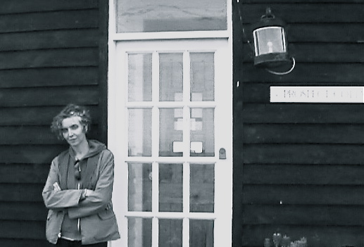 Patricia Farazzi in Dungeness - Derek Jarman's garden